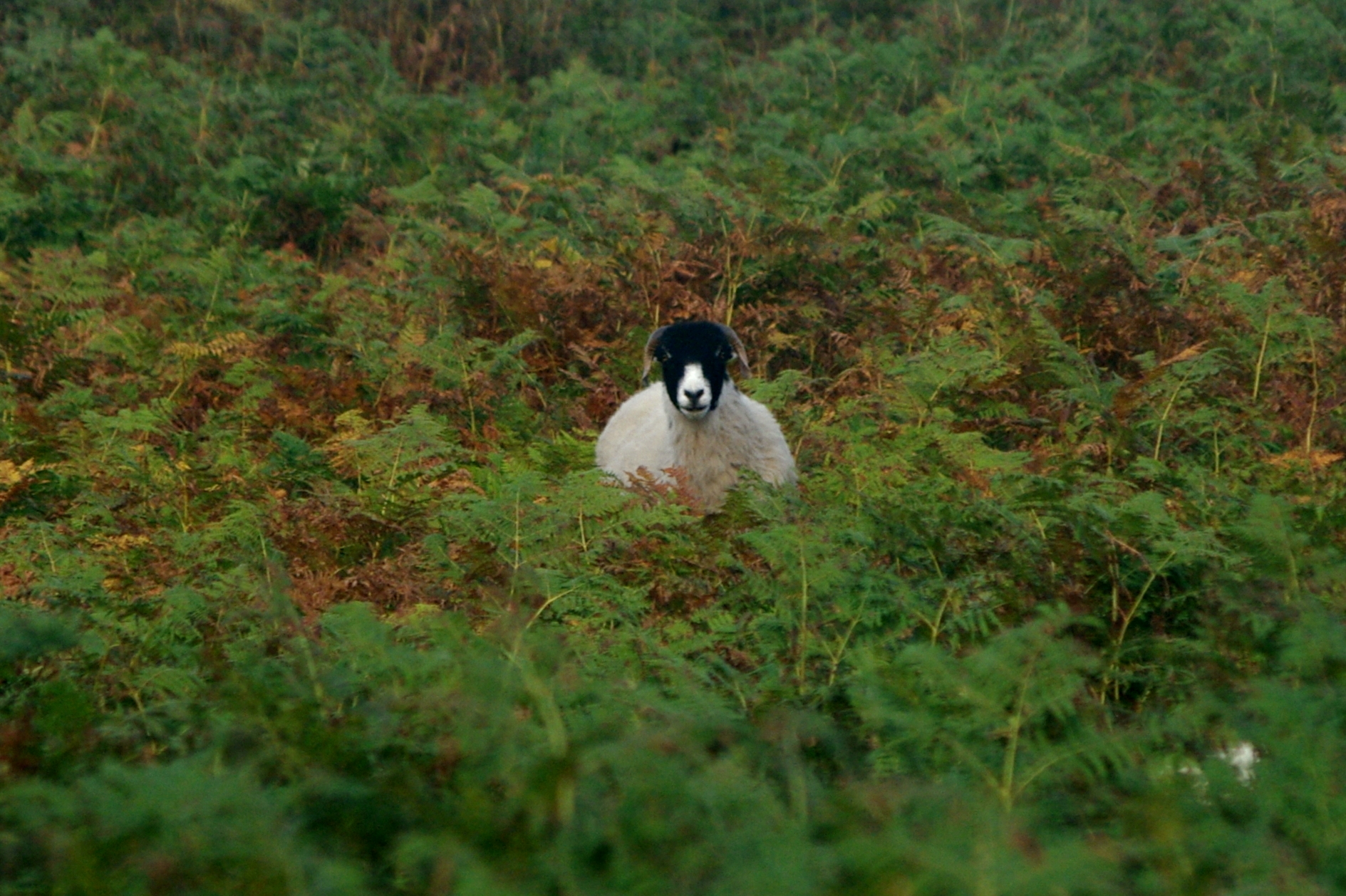 Sheep in braken, close to Goathland, North York Moors